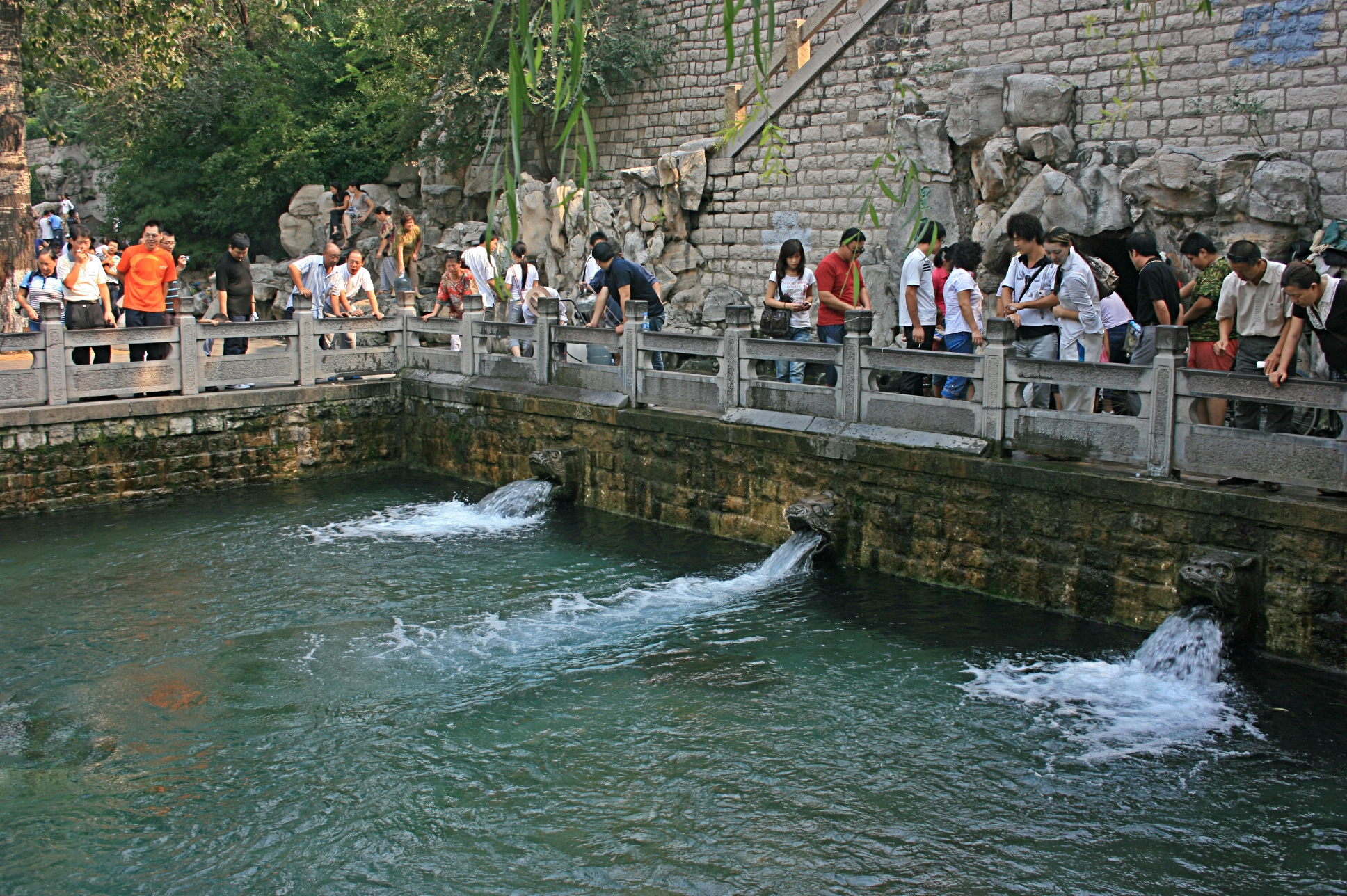 Photograph of the Black Tiger Spring, Jinan, Shandong, China.